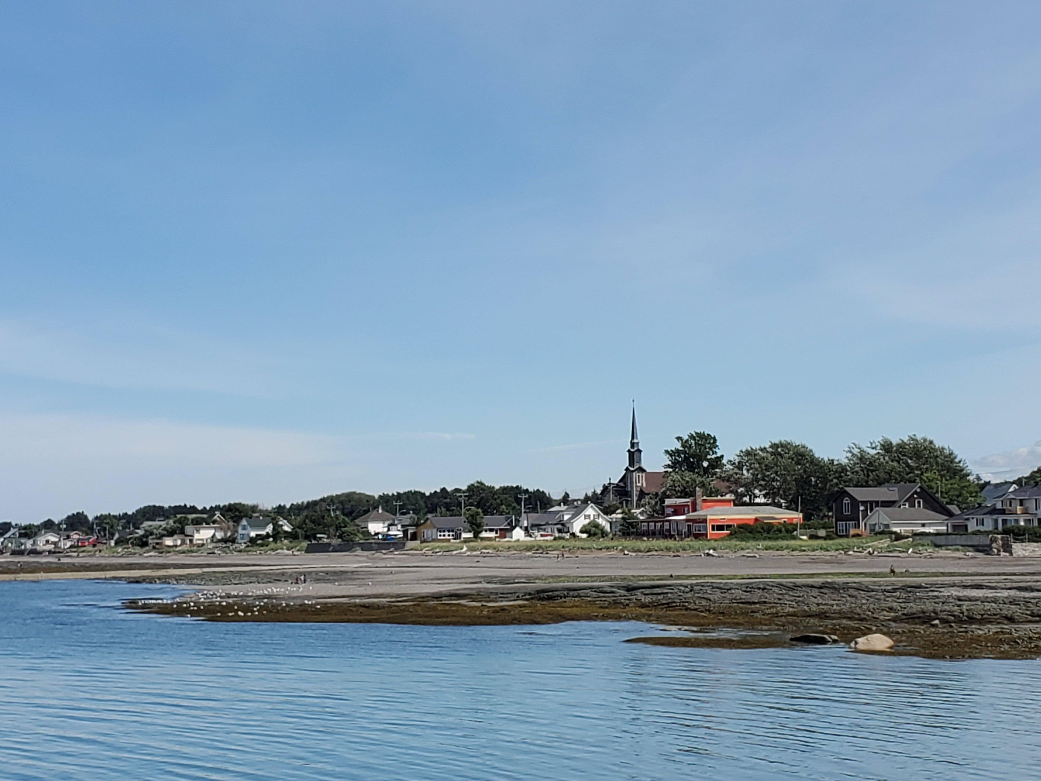 View of Sainte-Flavie, Quebec from the St Lawrence River